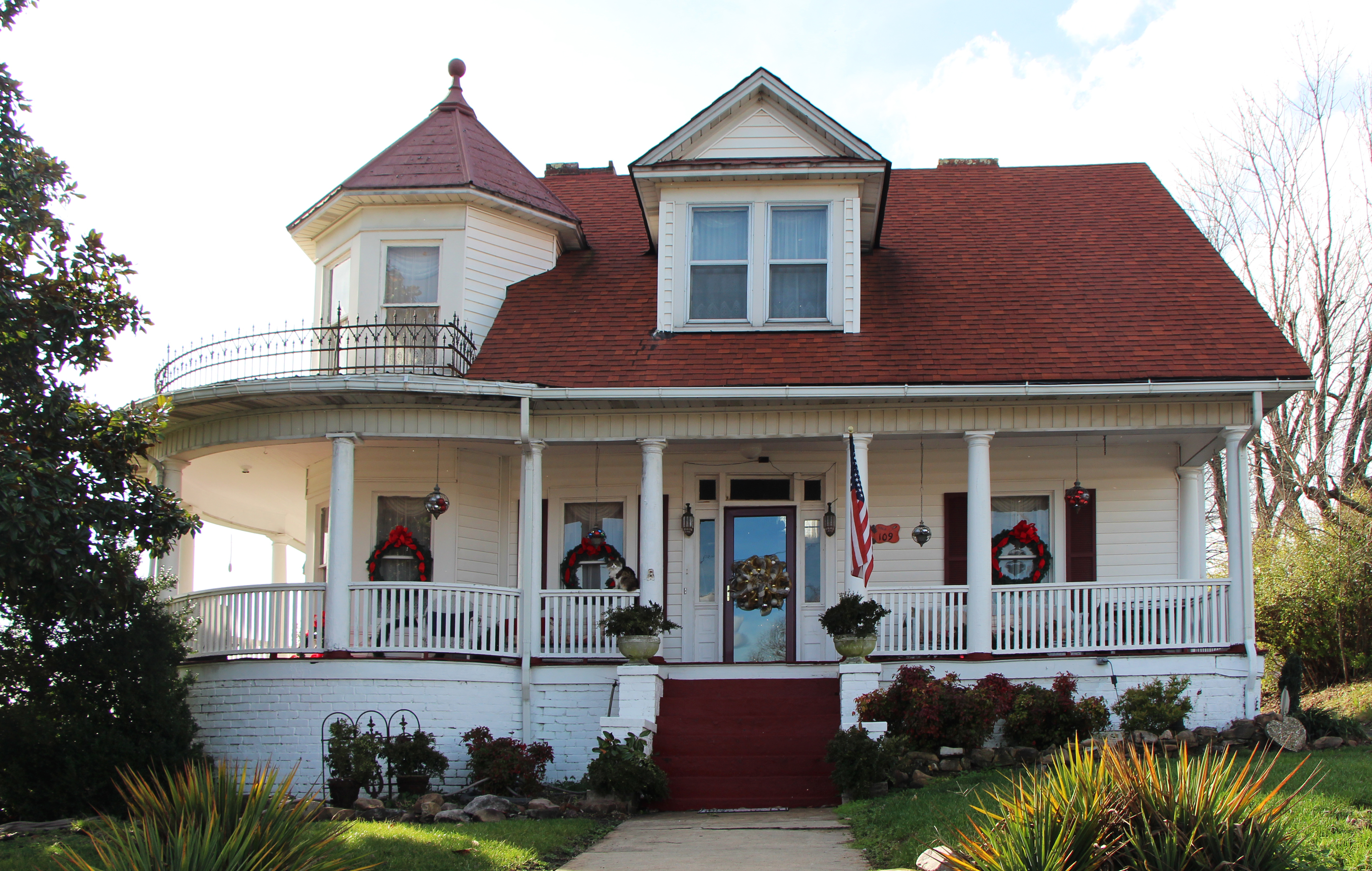 Marshall Residence, 109 Church St., Bulls Gap, TN